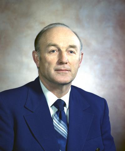 Representative E. G. Patterson